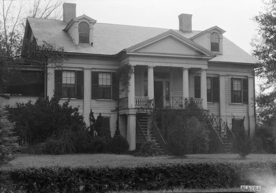 Lakewood mansion — on U.S. Highway 11 (Washington Street), in Livingston, Sumter County, AL. 1936 image: HABS—Historic American Buildings Survey of Alabama.